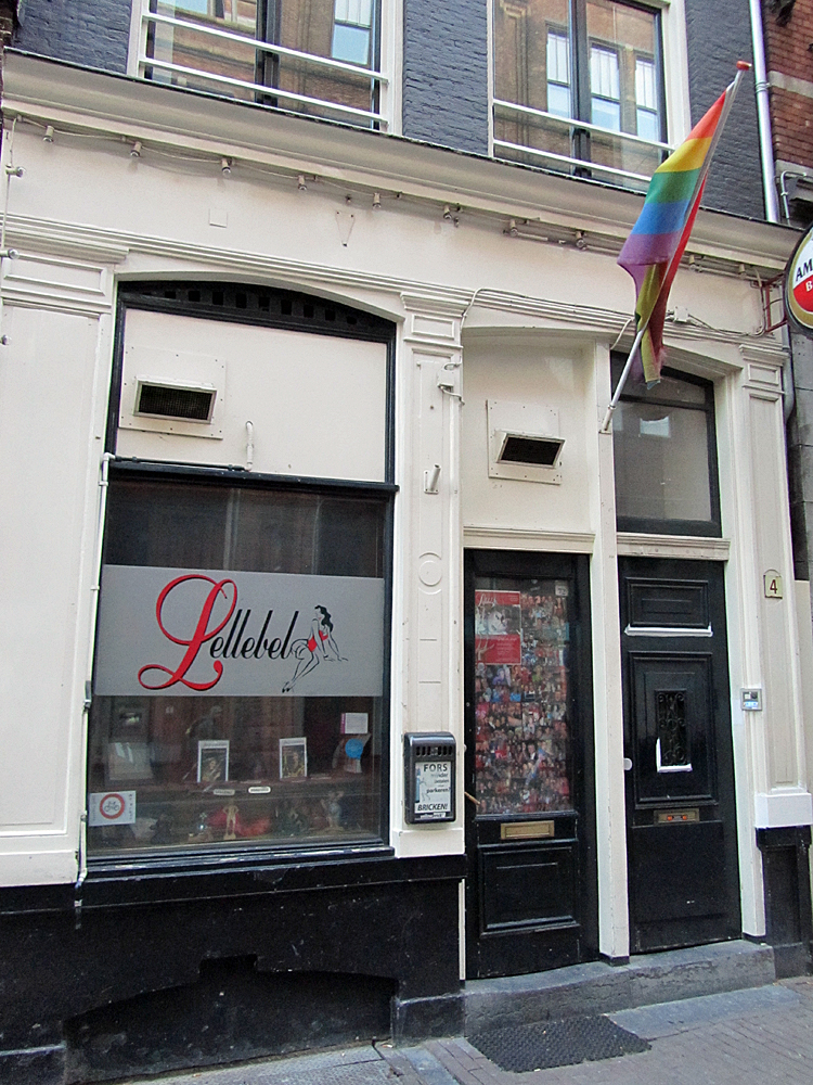 Drag show bar De Lellebel at Utrechtsestraat 4 in Amsterdam, opened in 1997.